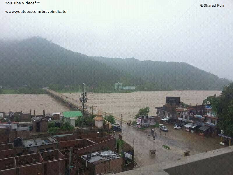 Pulchowk, Bhalubang, Deukhuri, Dang.